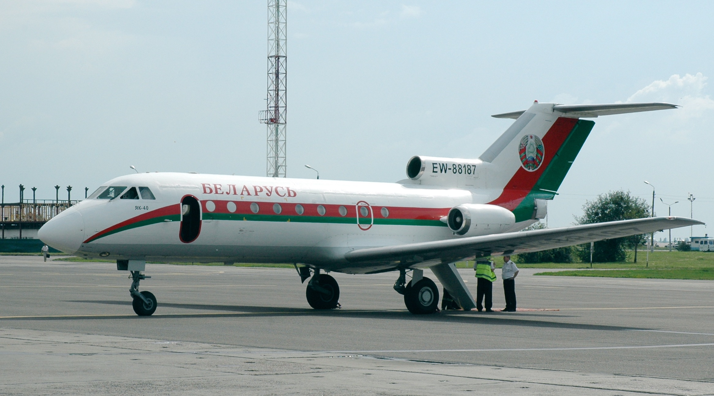 Yakovlev Yak-40 (reg. EW-88187) used by Belarus government (Borispil Airport, Ukraine)